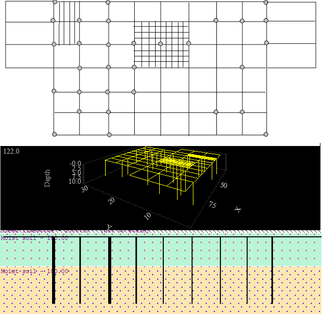 Grounding grid design with Etap